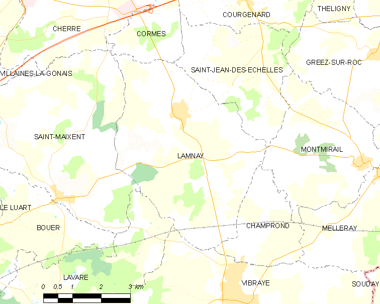 Map of French municipality